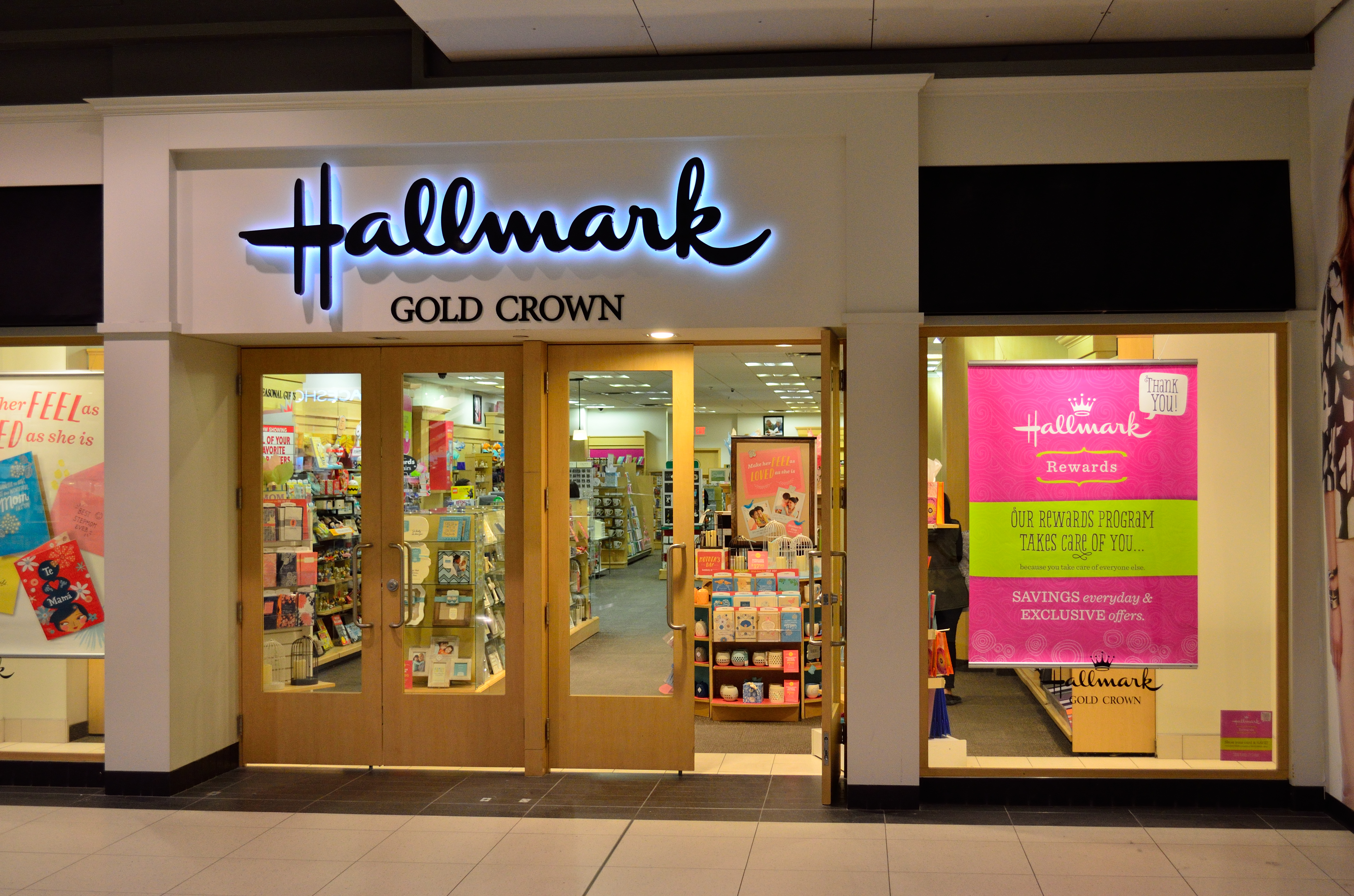 Hallmark Cards at Eaton Centre.